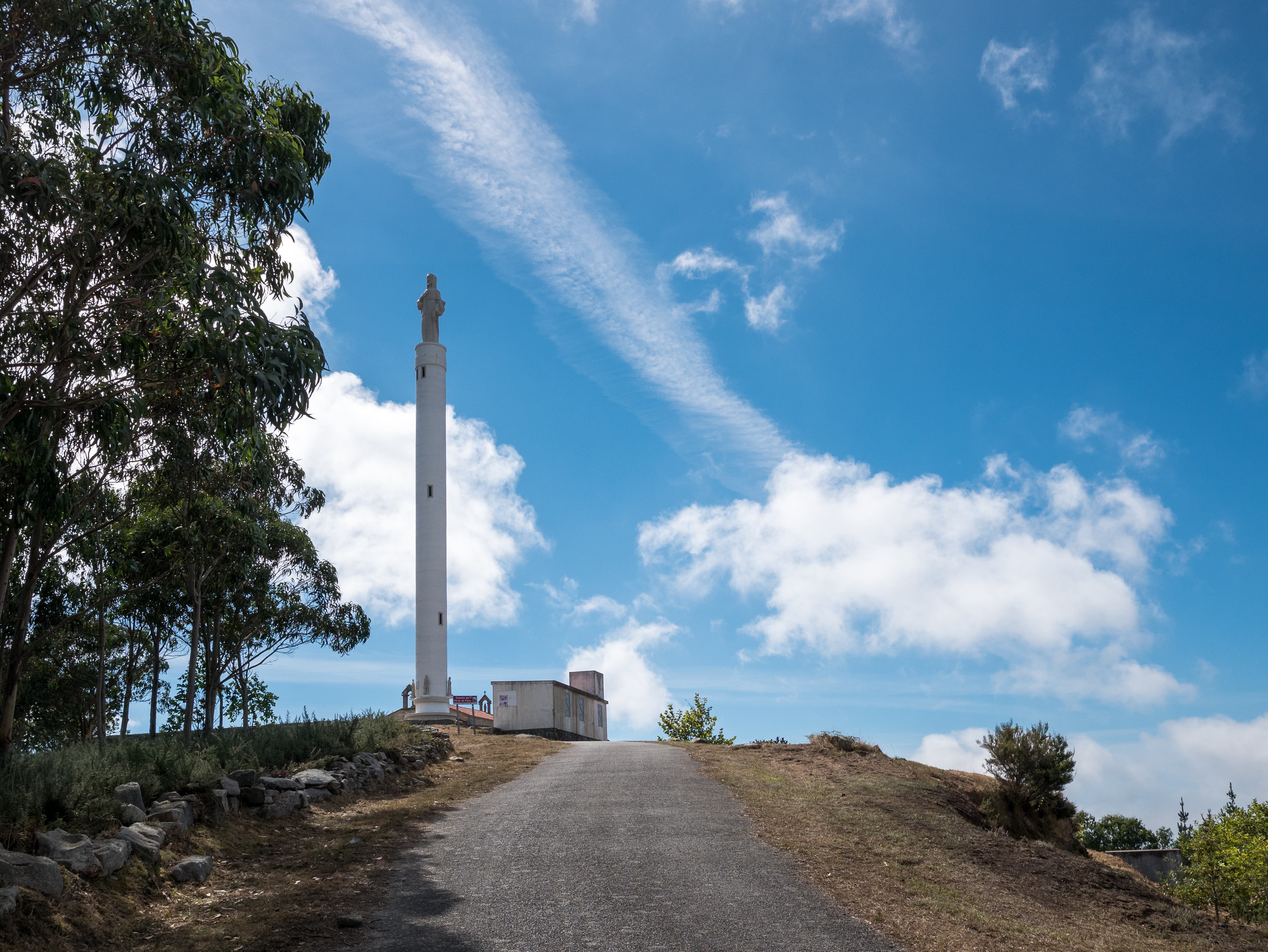 Virgen del Faro ("the Lighthouse Virgin"), chapel and lighthouse monument (Torre do Faro). Brantuas, Ponteceso, La Coruña, Galicia, Spain